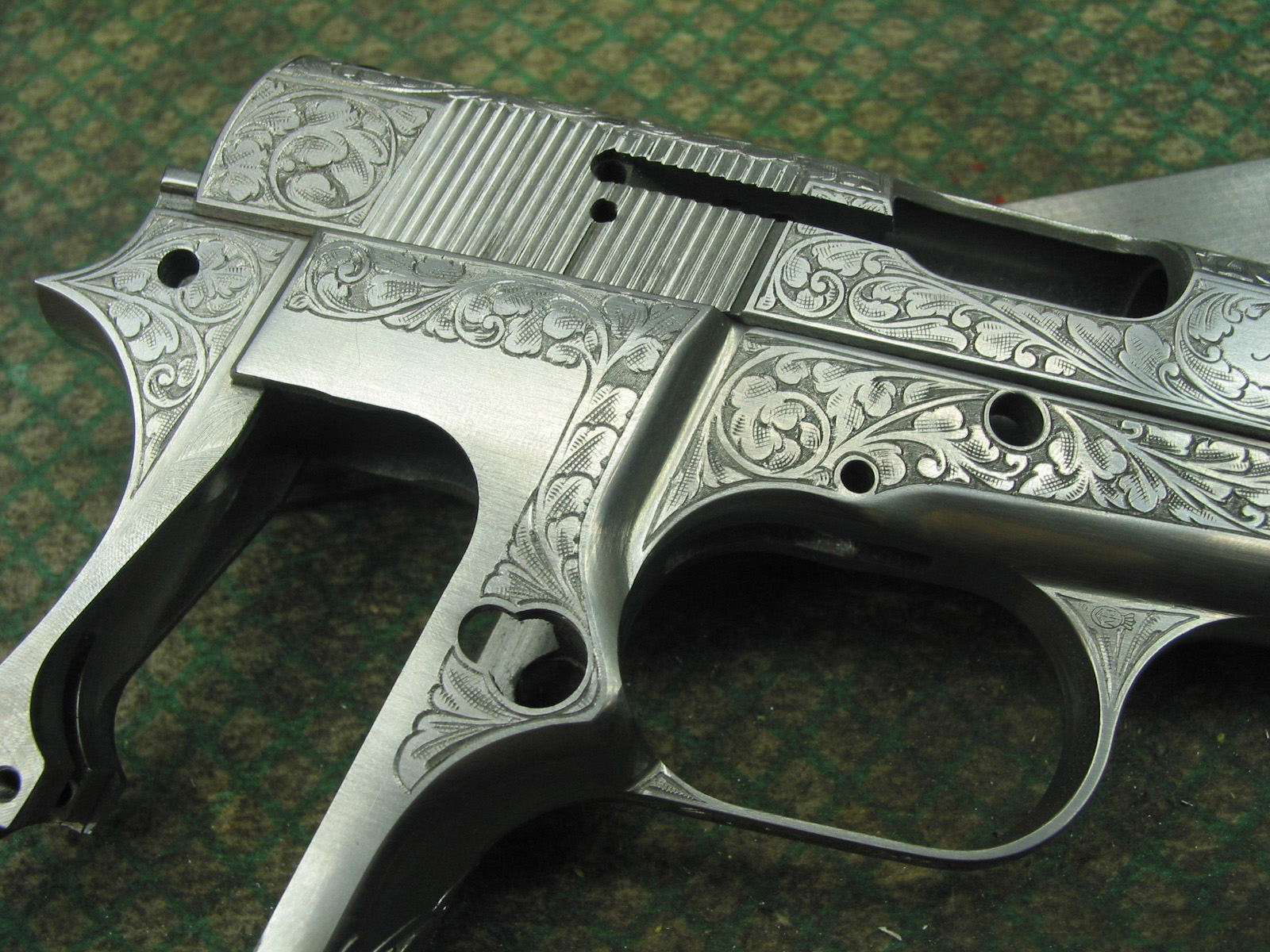 Handgun FN Browning (Belgium), Engraved body for a customized HP35.